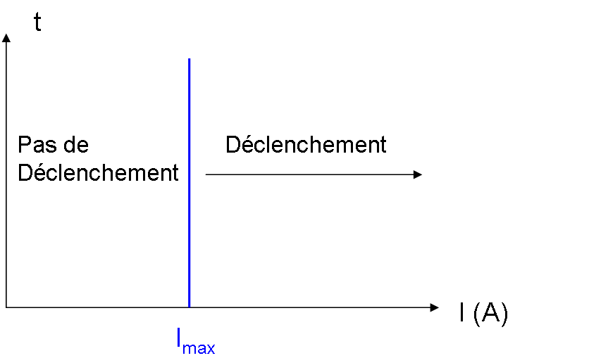 Protection maximum de courant sans délai